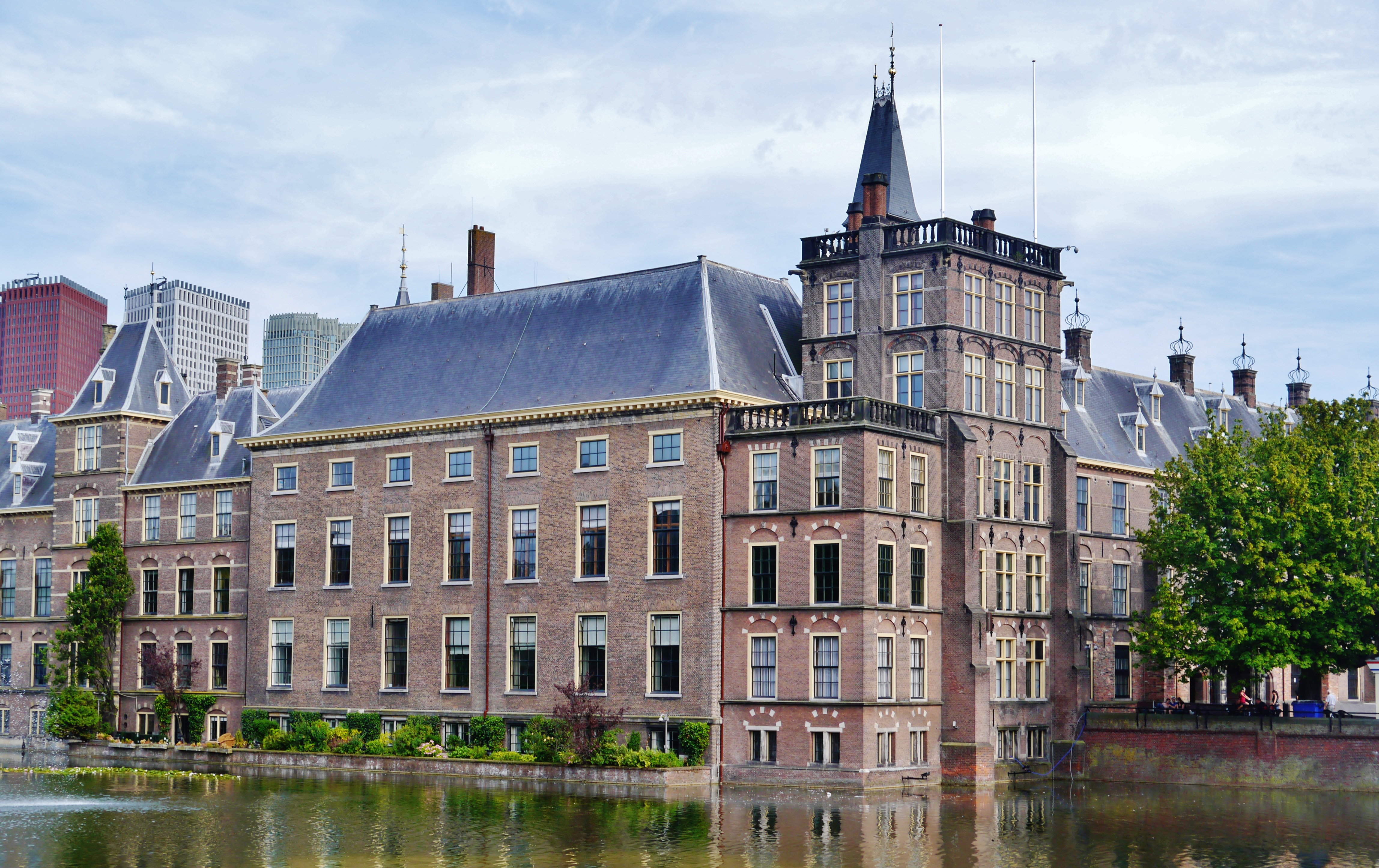 Binnenhof, The Hague, Province of South Holland, Netherlands